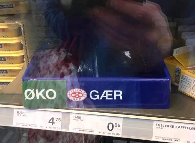 Empty yeast tray in supermarket in Odense, Denmark on March 17, 2020. Following prime minister Mette Frederiksen's announcement of a general lockdown, there was a widespread hoarding of yeast, despite yeast having a relatively short shelf-life. The shop in question was otherwise quite well-supplied; in particular, there was no shortage of toilet paper. See en:2020 coronavirus pandemic in Denmark for more information.